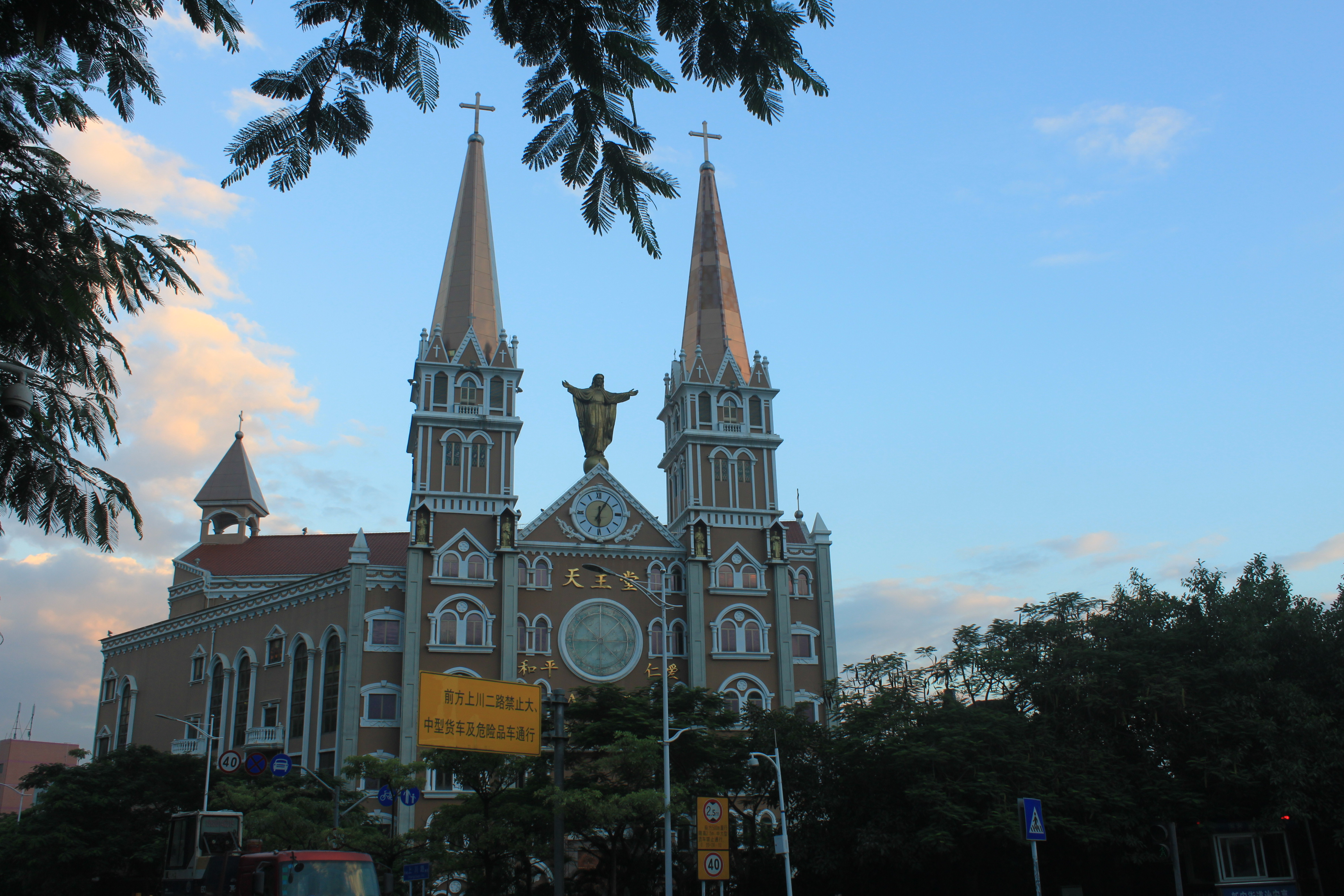 Christ the King Church is a Roman Catholic church in Bao'an District, Shenzhen, Guangdong, China.